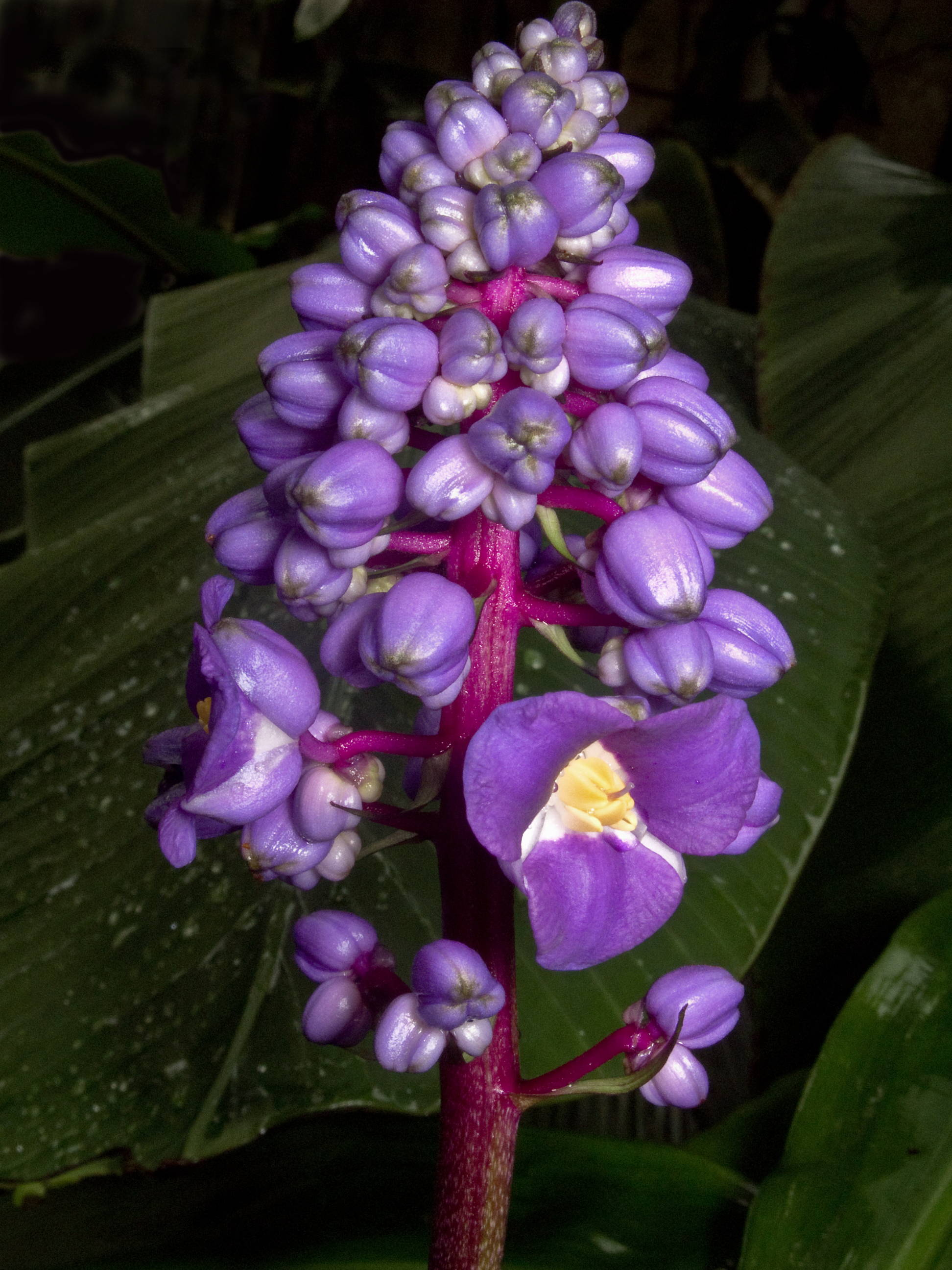 Flower spike of Dichorisandra thyrsiflora, growing at the Birmingham Botanical Gardens, Birmingham, UK